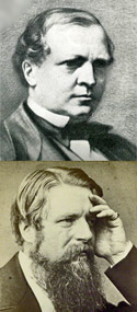 Edward Stanley (top); Stafford Northcote (bottom)